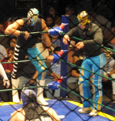 Picture of the wrestling team of La Sombra and Volador, Jr.